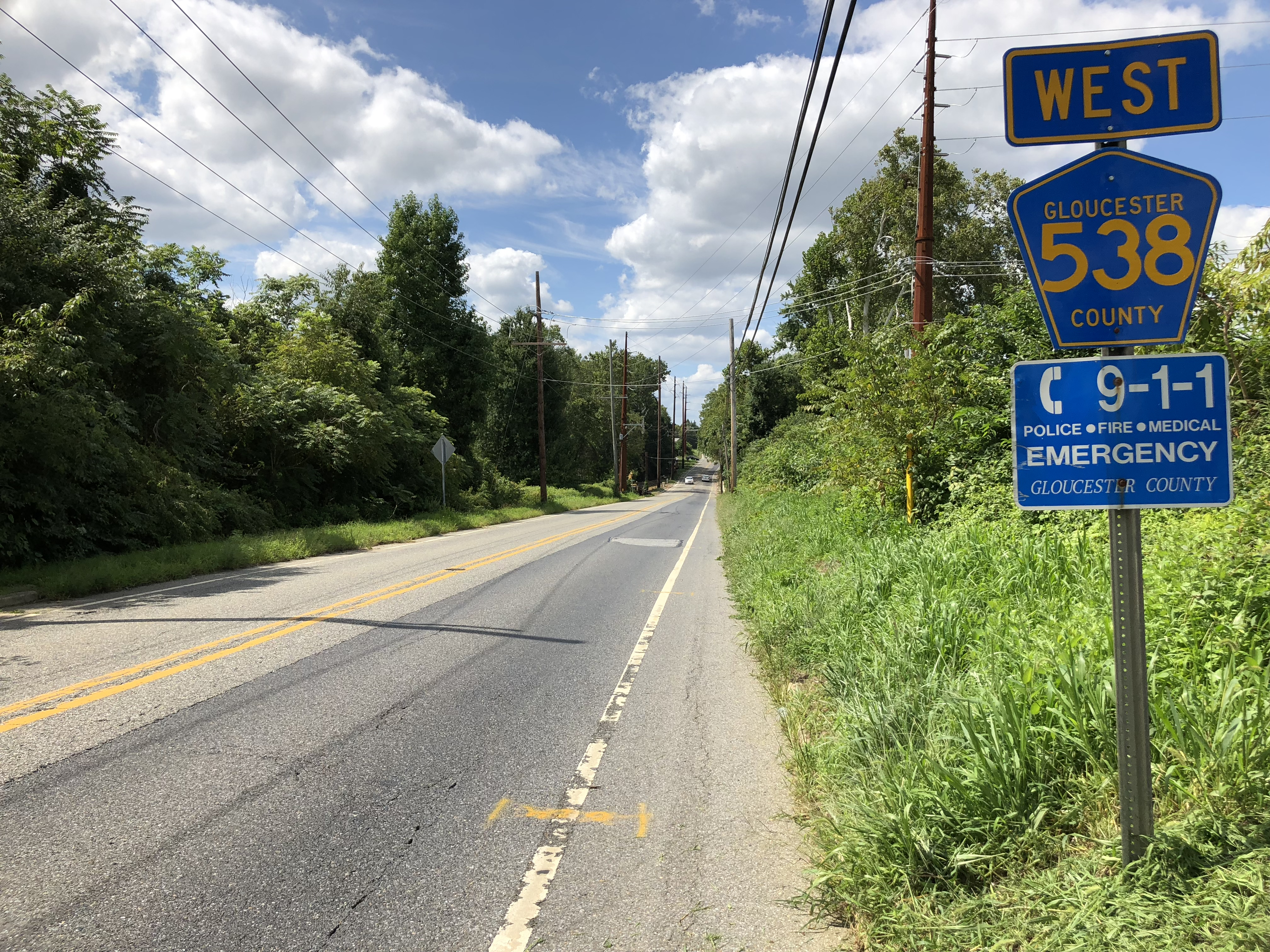 View west along Gloucester County Route 538 (Swedesboro-Franklinville Road) just west of High Street in Woolwich Township, Gloucester County, New Jersey